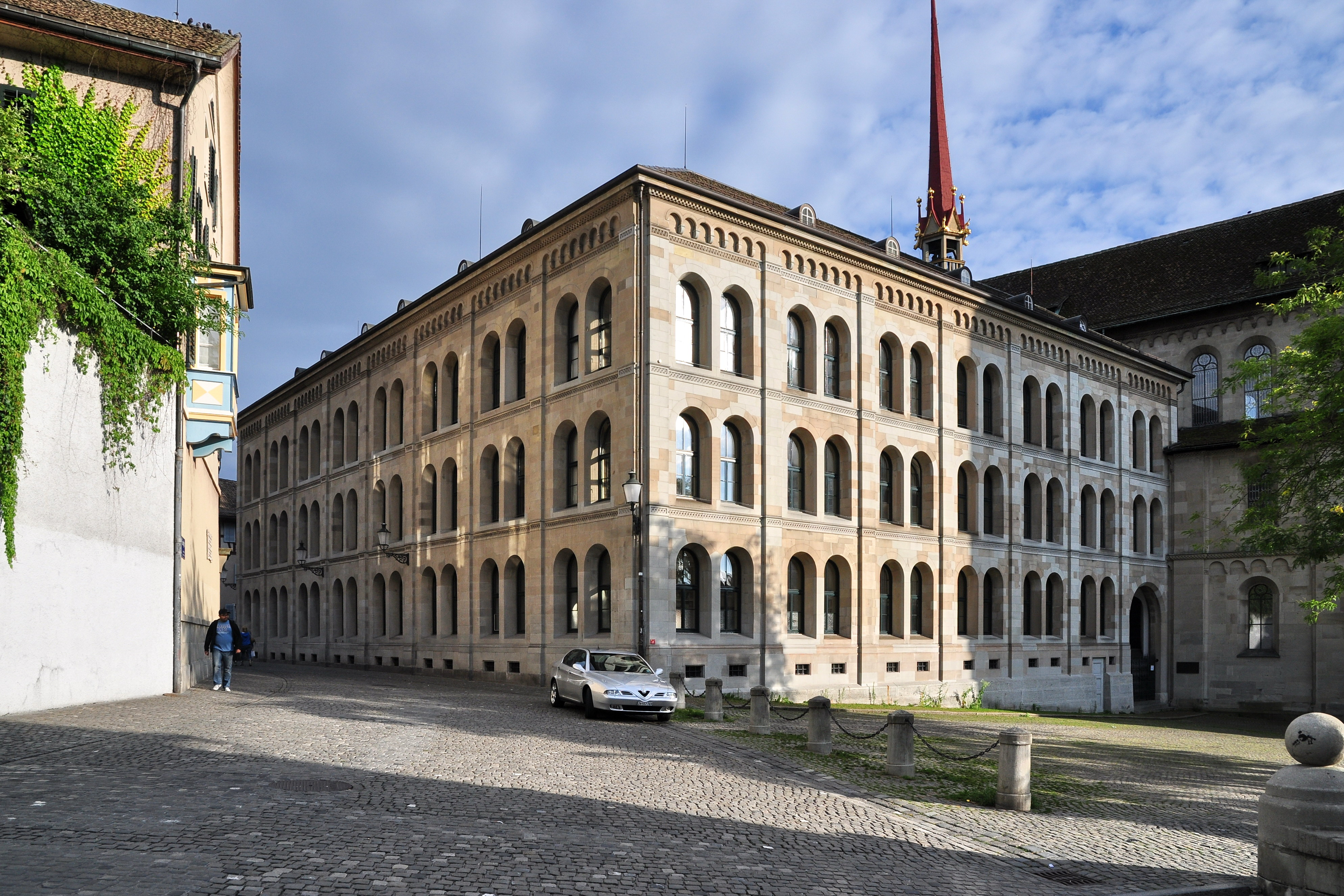 Theologisches Seminar, University of Zurich, respectively former Höhere Töchterschule college in Zürich (Switzerland) as seen from Zwingliplatz, Pfarrhaus (rectory) Grossmünster to the left, Grossmünster and Grossmünsterplatz to the right.